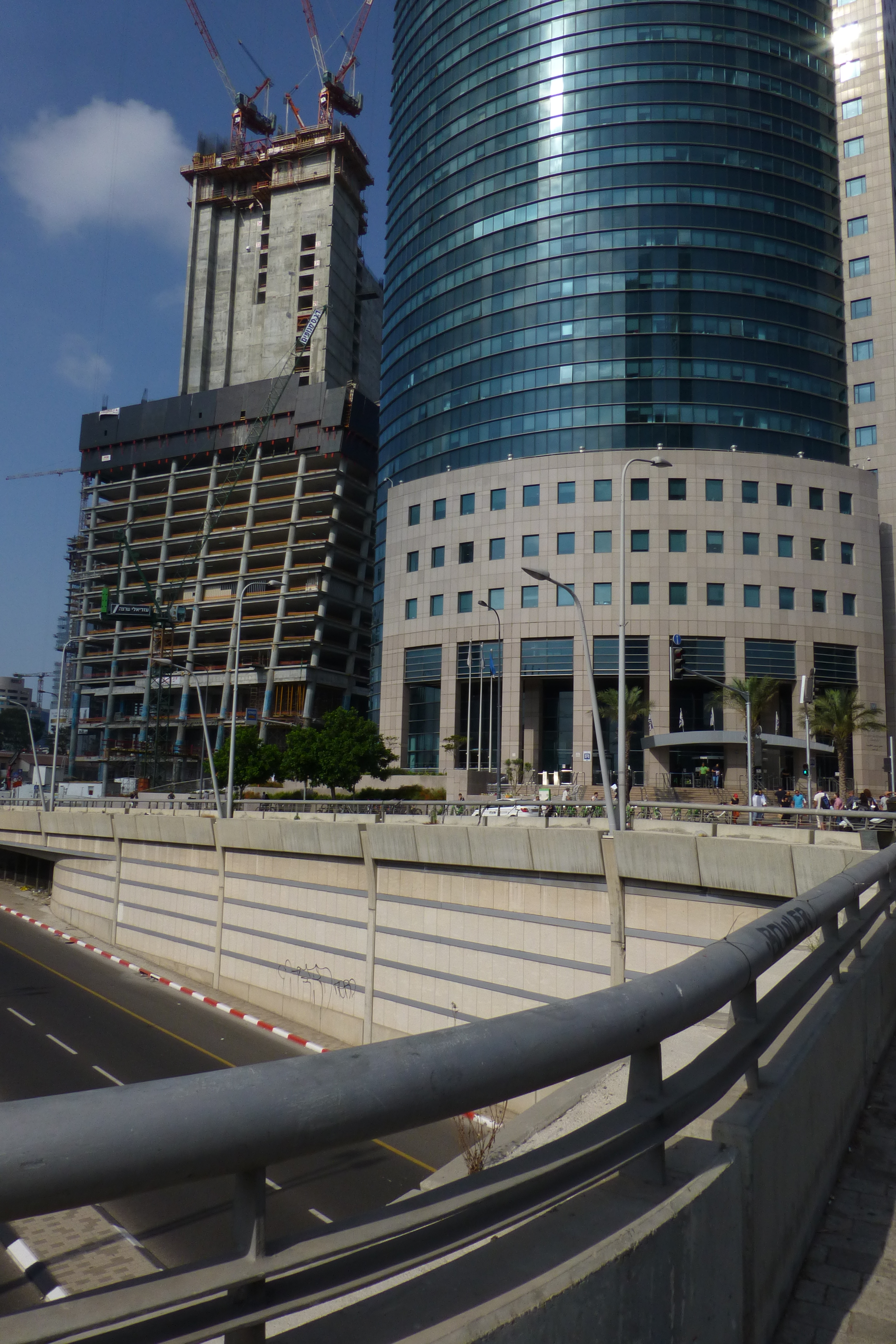 A2 (Israel)